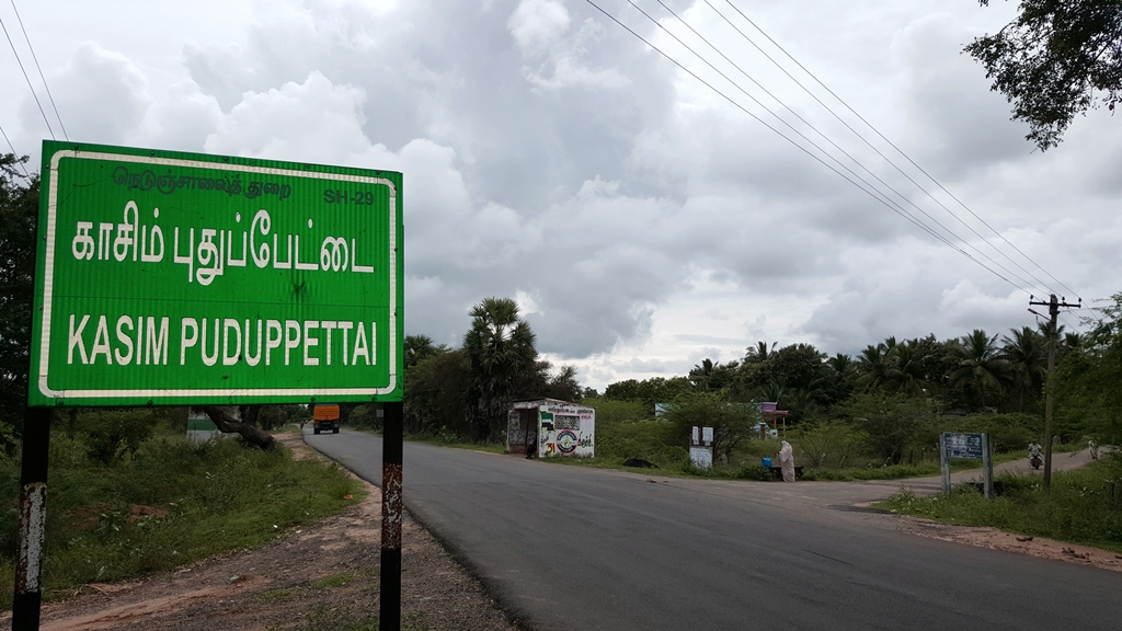 Kasimpuduppettai name Board besides State Highway SH-29